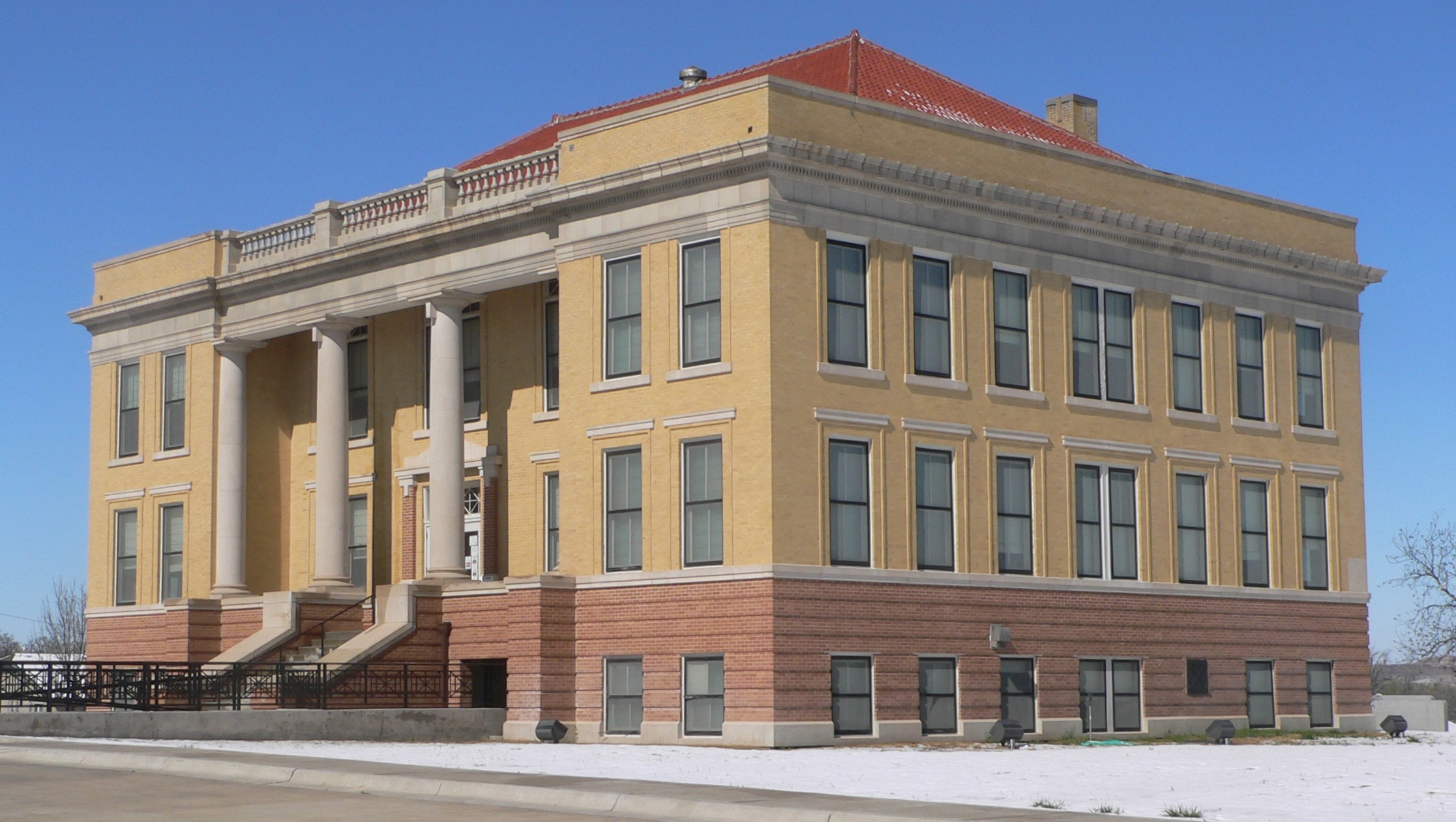 Roberts County courthouse in Miami, Texas; seen from the east.